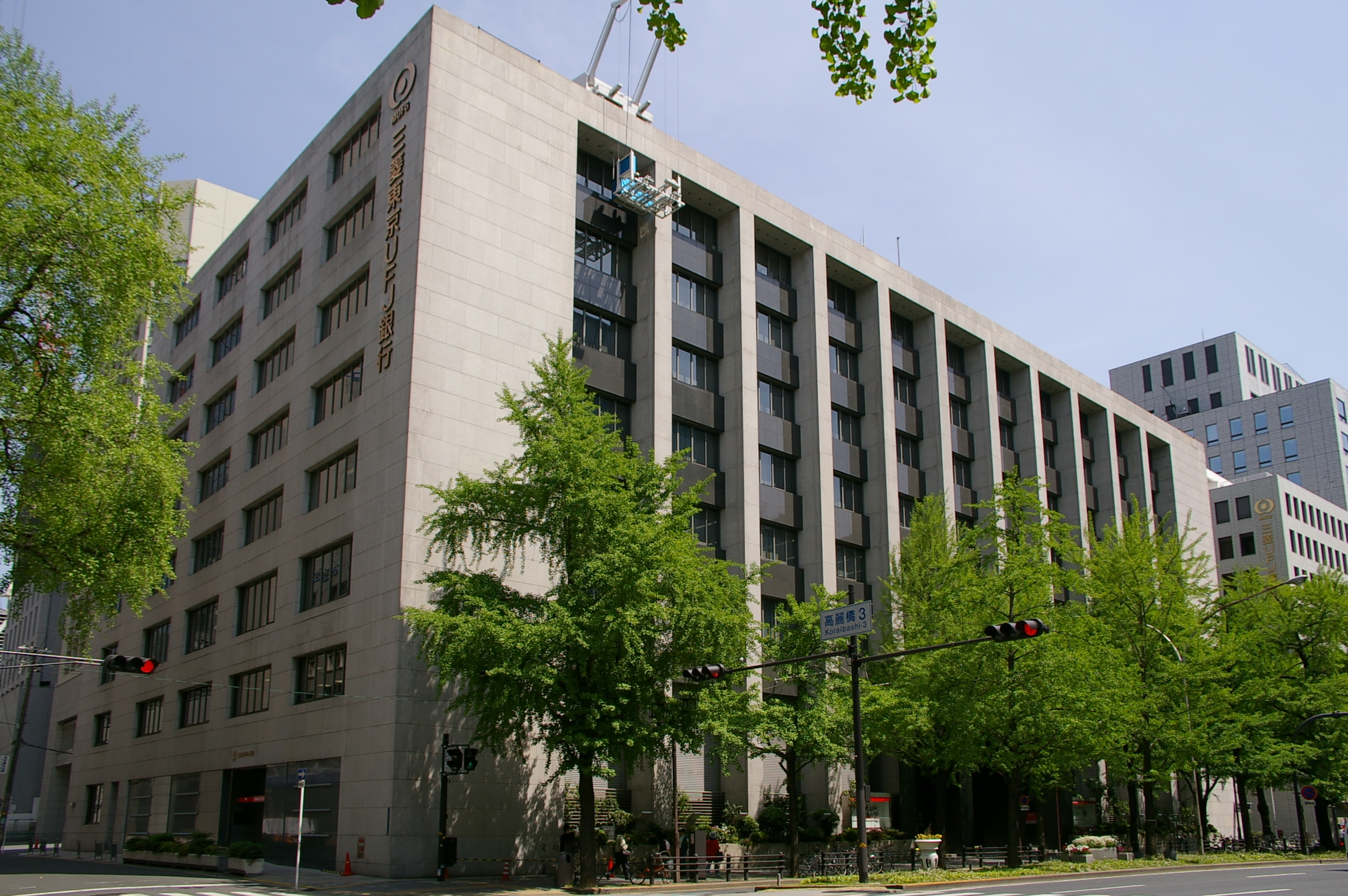 Photograph of Osaka Branch, the Bank of Mitsubishi-Tokyo UFJ in Chuo-ku, Osaka, Osaka Prefecture, Japan.